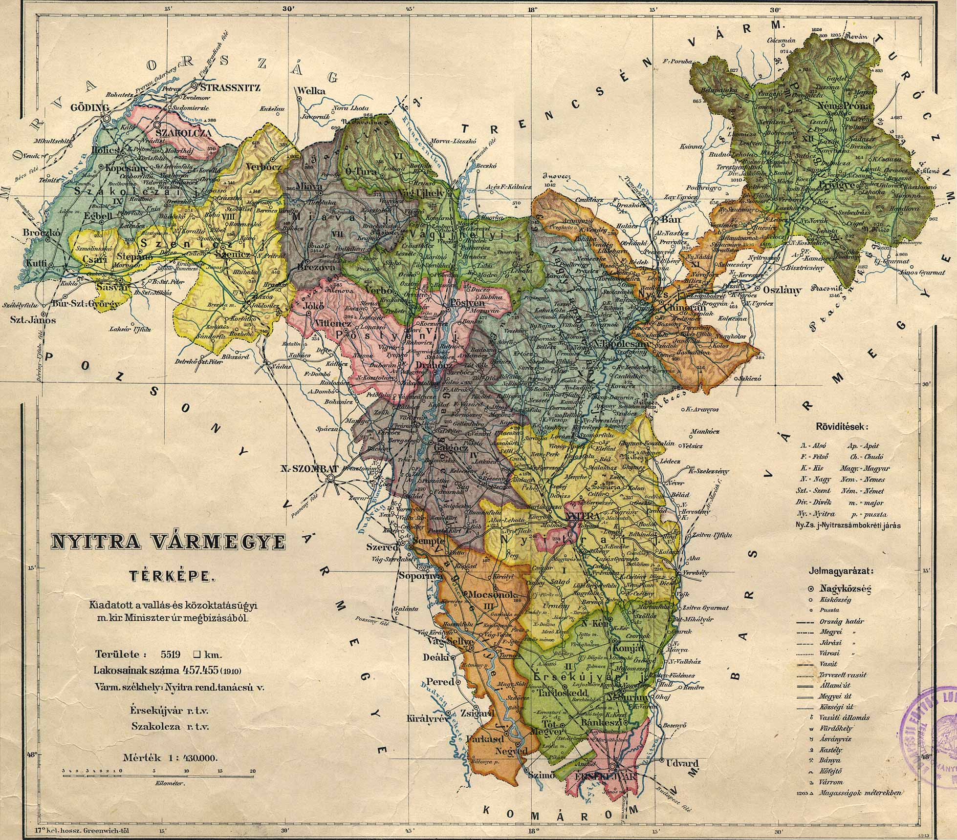 Administrative map of the county of Nyitra in the Kingdom of Hungary